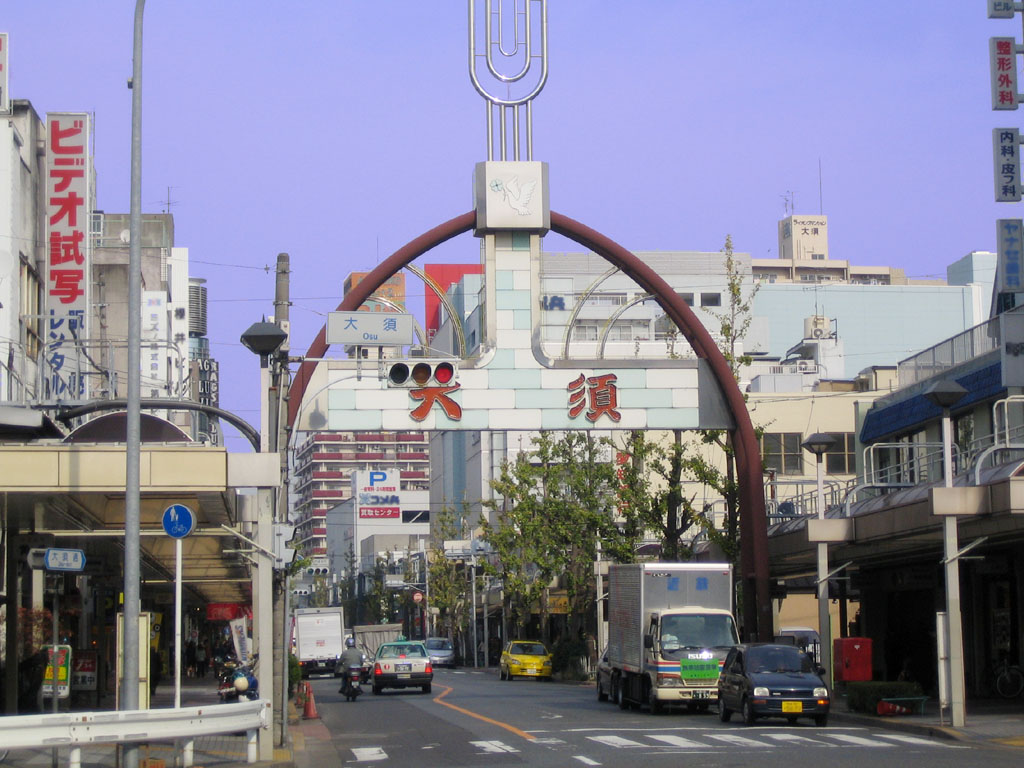 Osu (大須), Naka-ku, Nagoya, Aichi, Japan